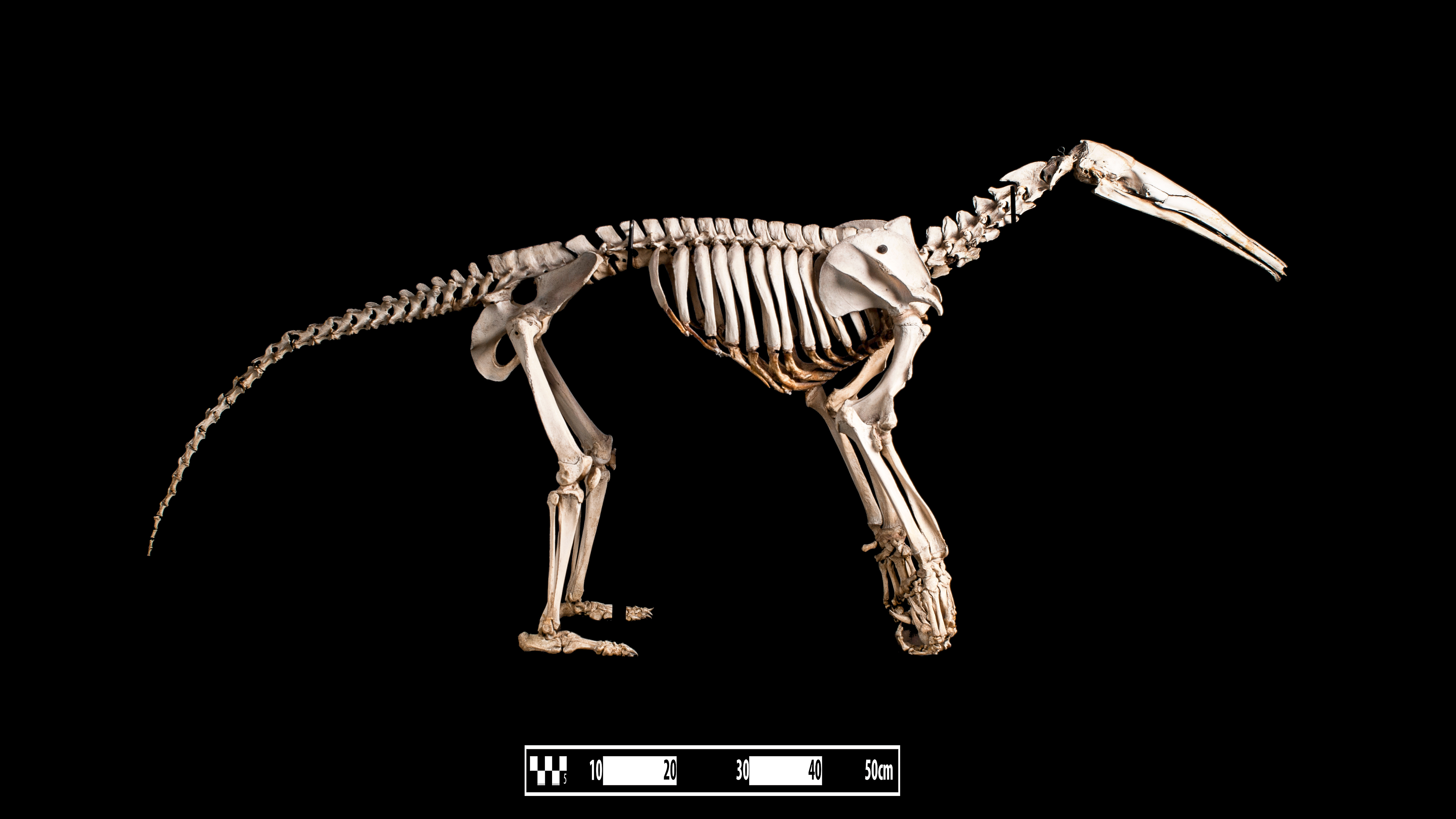 Giant anteater. Myrmecophaga tridactyla”. Specimen of giant anteater skeleton prepared by the bone maceration technique and on display at the Museum of Veterinary Anatomy, FMVZ USP.